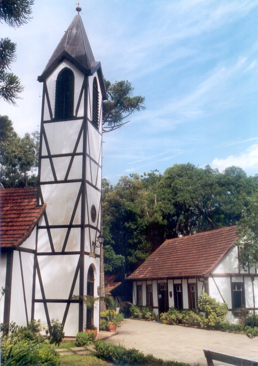 Old houses in Nova Petrópolis, Rio Grande do Sul, Brazil.